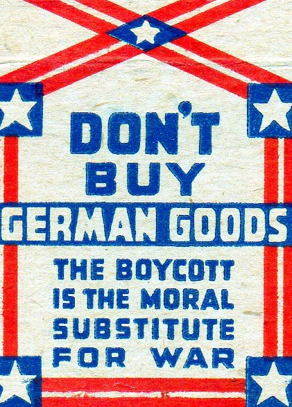 The cover of a matchbook distributed by the Non-Sectarian Anti-Nazi League to Champion Human Rights in support of the anti-Nazi boycott of 1933